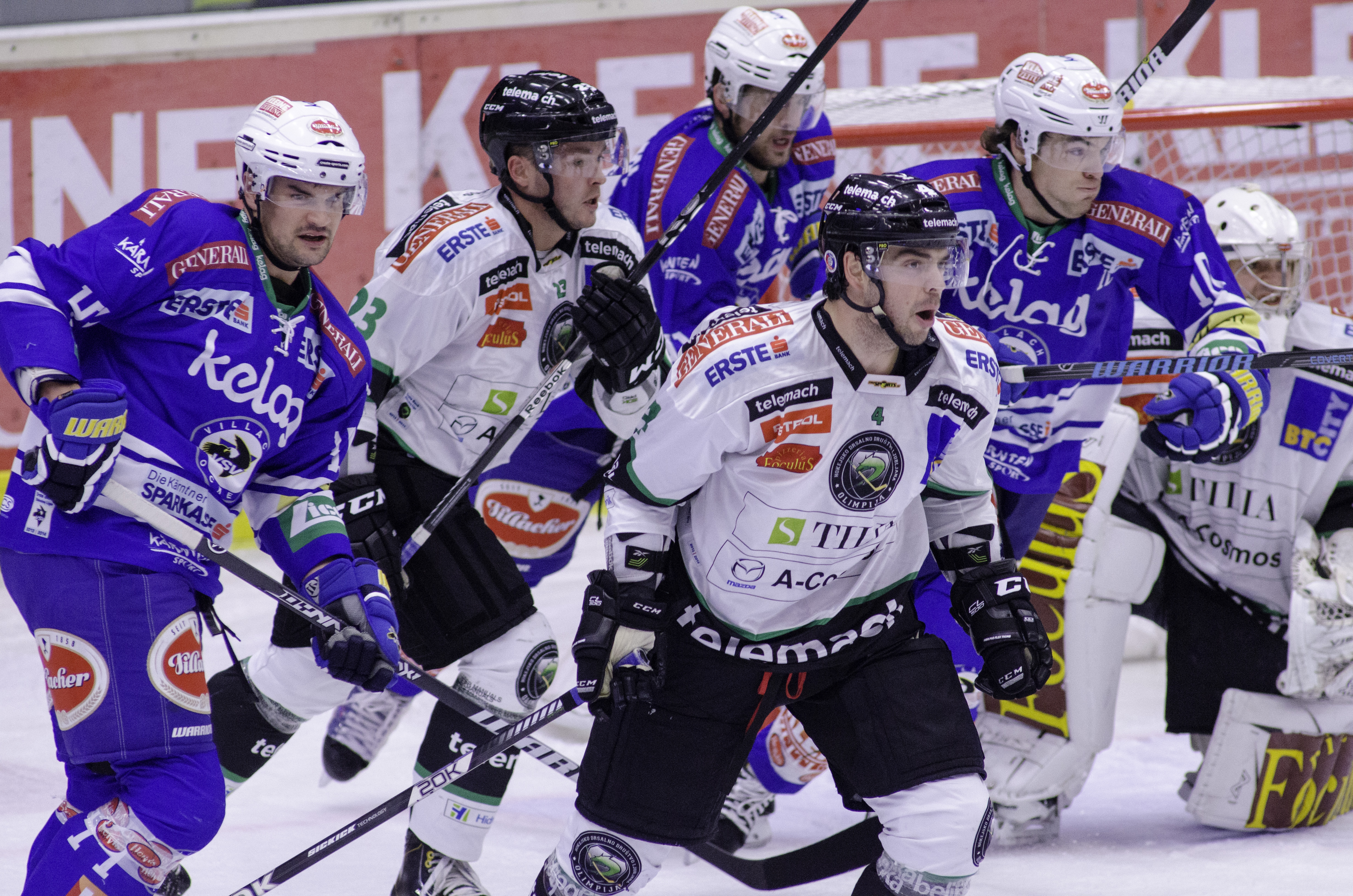 frostworx-micheu130928 (54 von 97)